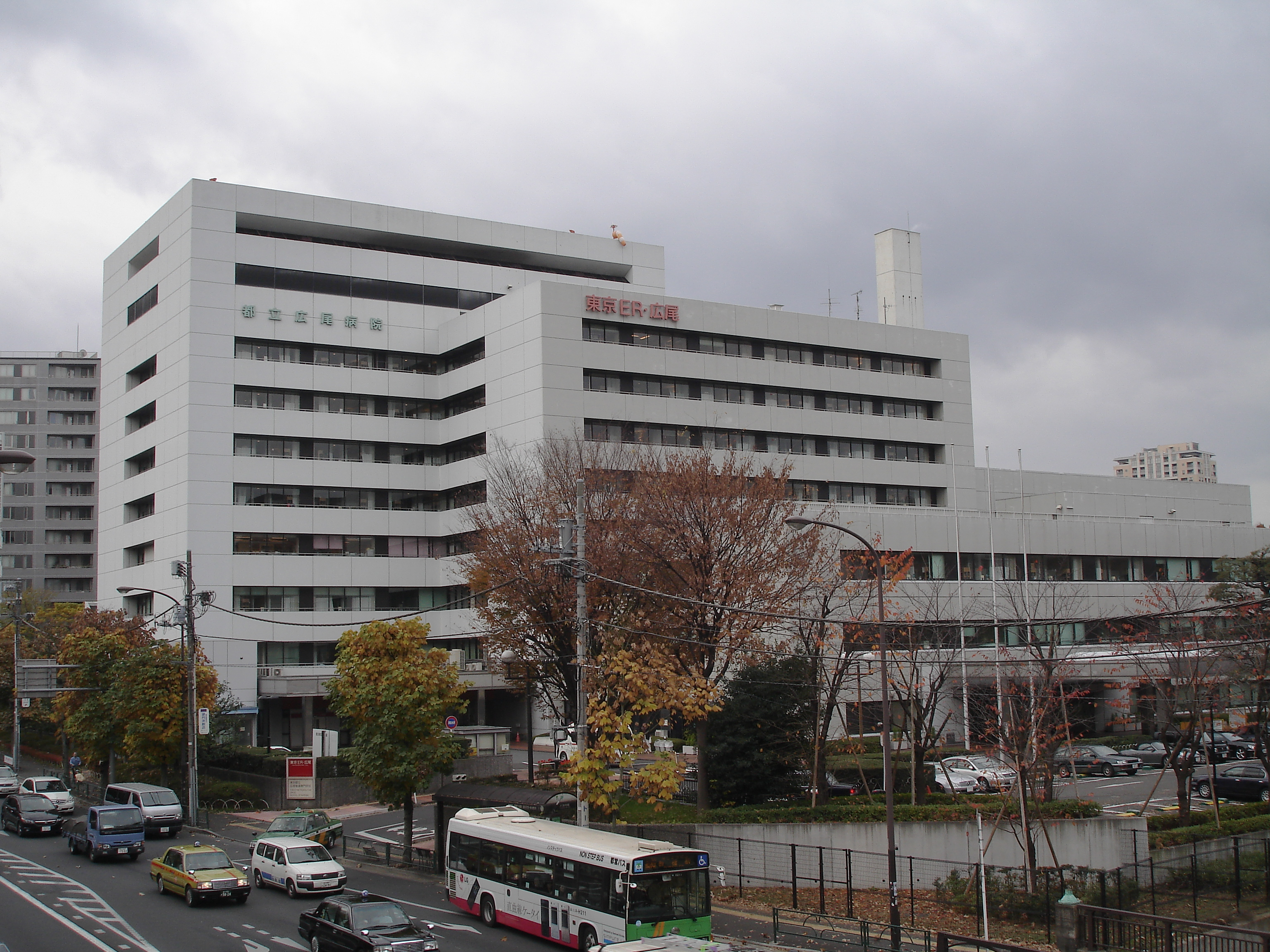 Tokyo Metropolitan Hiroo Hospital (at HIROO, Shibuya-ku ward,Tokyo):within Tokyo-ER center